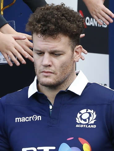 2017.06.17.14.59.16-Scots running on The 2017 mid-year rugby union international, 17 June 2017, Australia vs Scotland at Allianz Stadium, Sydney